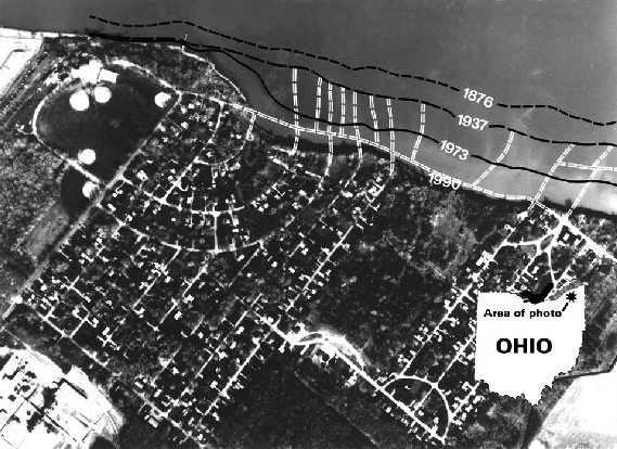 Lake Erie erosion. Caption A section of Ohio's shoreline along Lake Erie has eroded several hundred meters since 1876. (Labeled time lines show position of shore line for years given.)